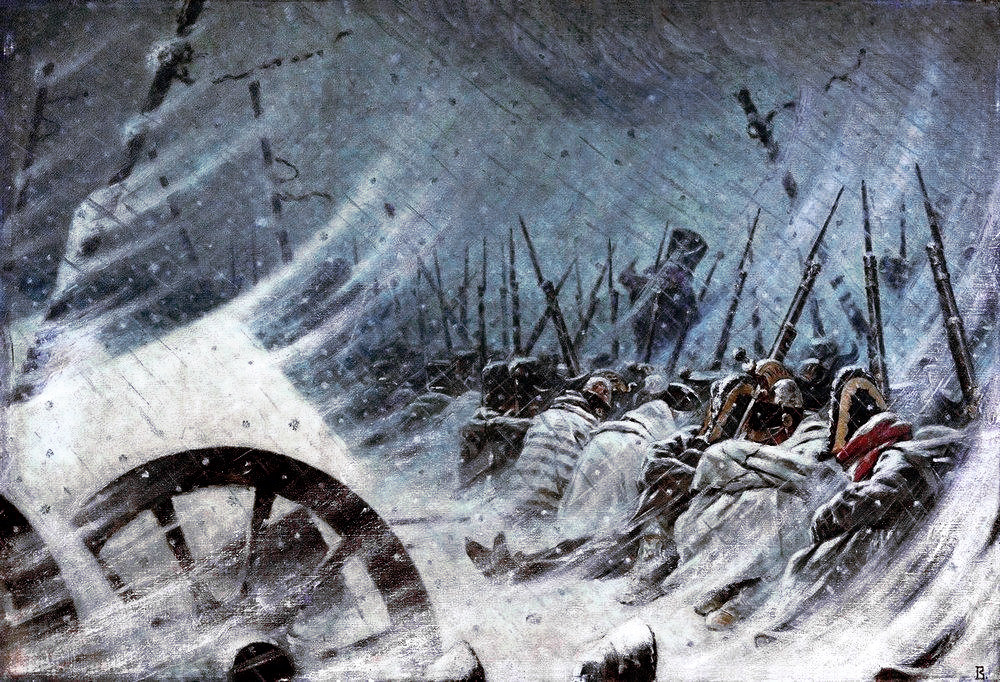 The Night Bivouac of the Napoleon Army during retreat from Russia in 1812. Oil on canvas. Historical Museum, Moscow, Russia.